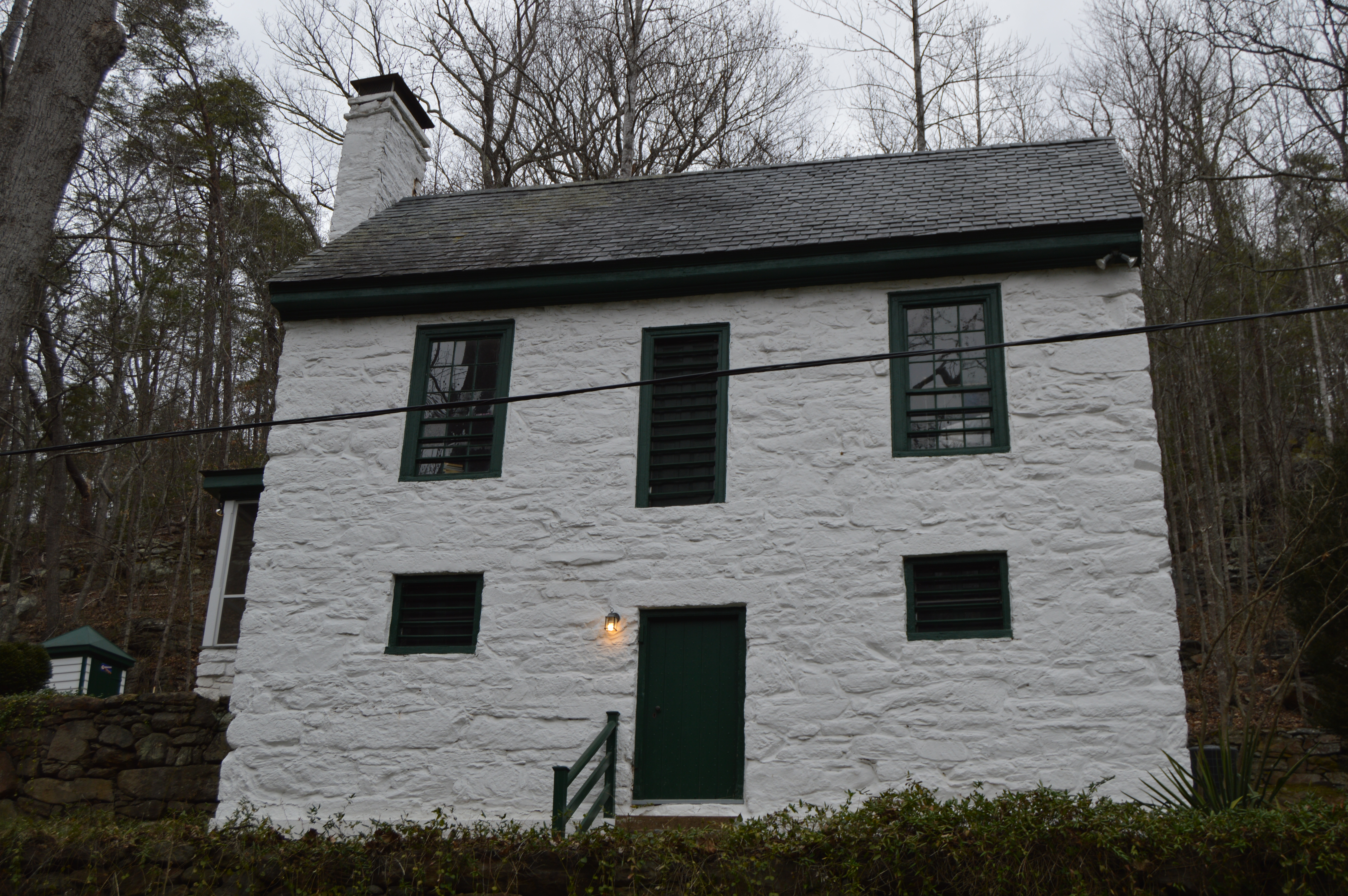 Front of Cocke's Mill House, located on Plank Road north of Alberene in Albemarle County, Virginia, United States. Built in 1820, it is listed on the National Register of Historic Places.